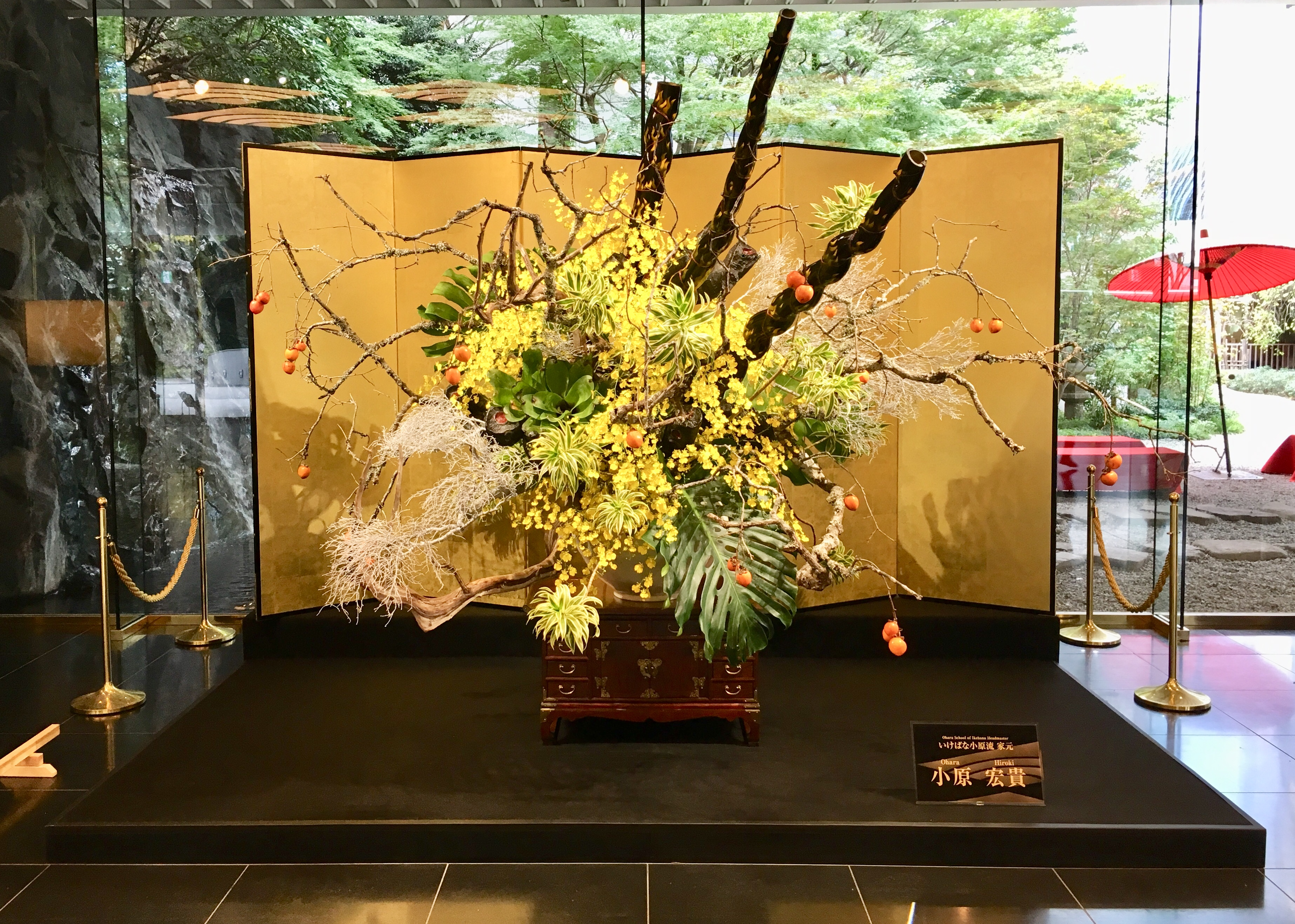 Large free flower arrangement by Iemoto Hiroki Ohara (小原宏貴) from the Ohara-ryū (小原流) in the entrance area of the hotel. 57 different schools of Ikebana belonging to the largest Ikebana organization in Japan, the “Public Interest Incorporated Foundation Japan Ikebana Art Association” (公益財団法人日本いけばな芸術協会), presented their works in exhibitions at the Meguro Gajoen that changed weekly. From the traditional arrangements with flowers and fruits that embody autumn colors to the dynamic free-style arrangement that utilized the entire room, works from various schools were shown in one exhibition.